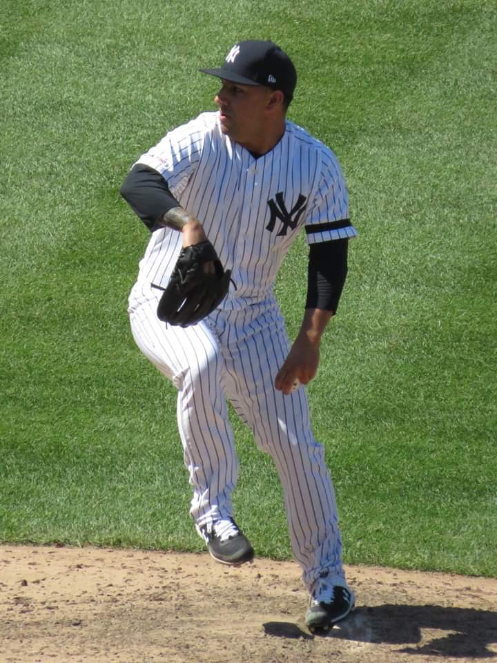 Nestor Cortes Jr. in 2019